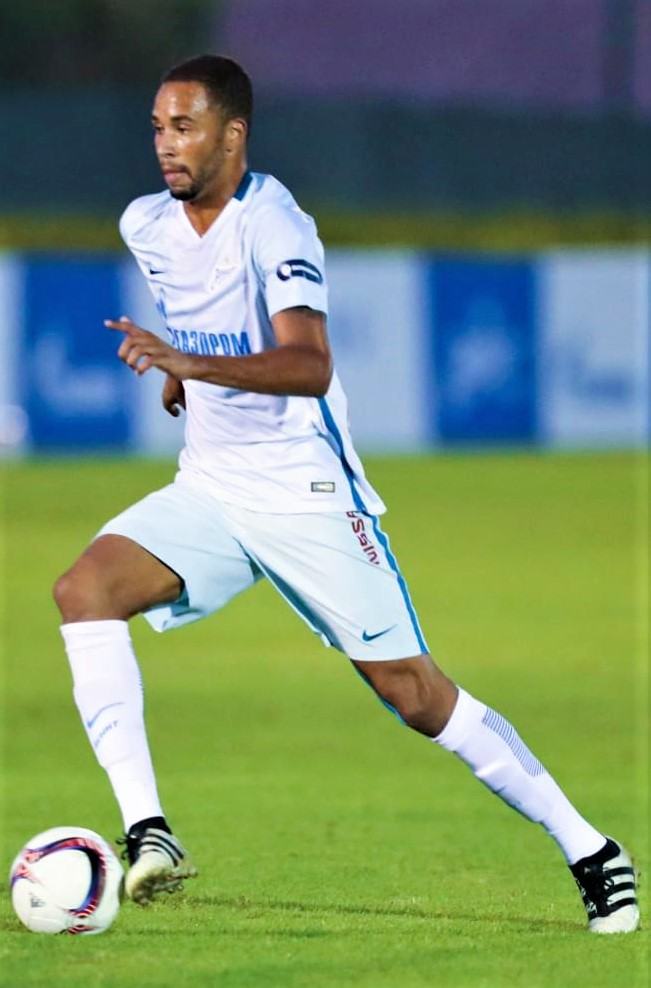 Hernani Azevedo Júnior